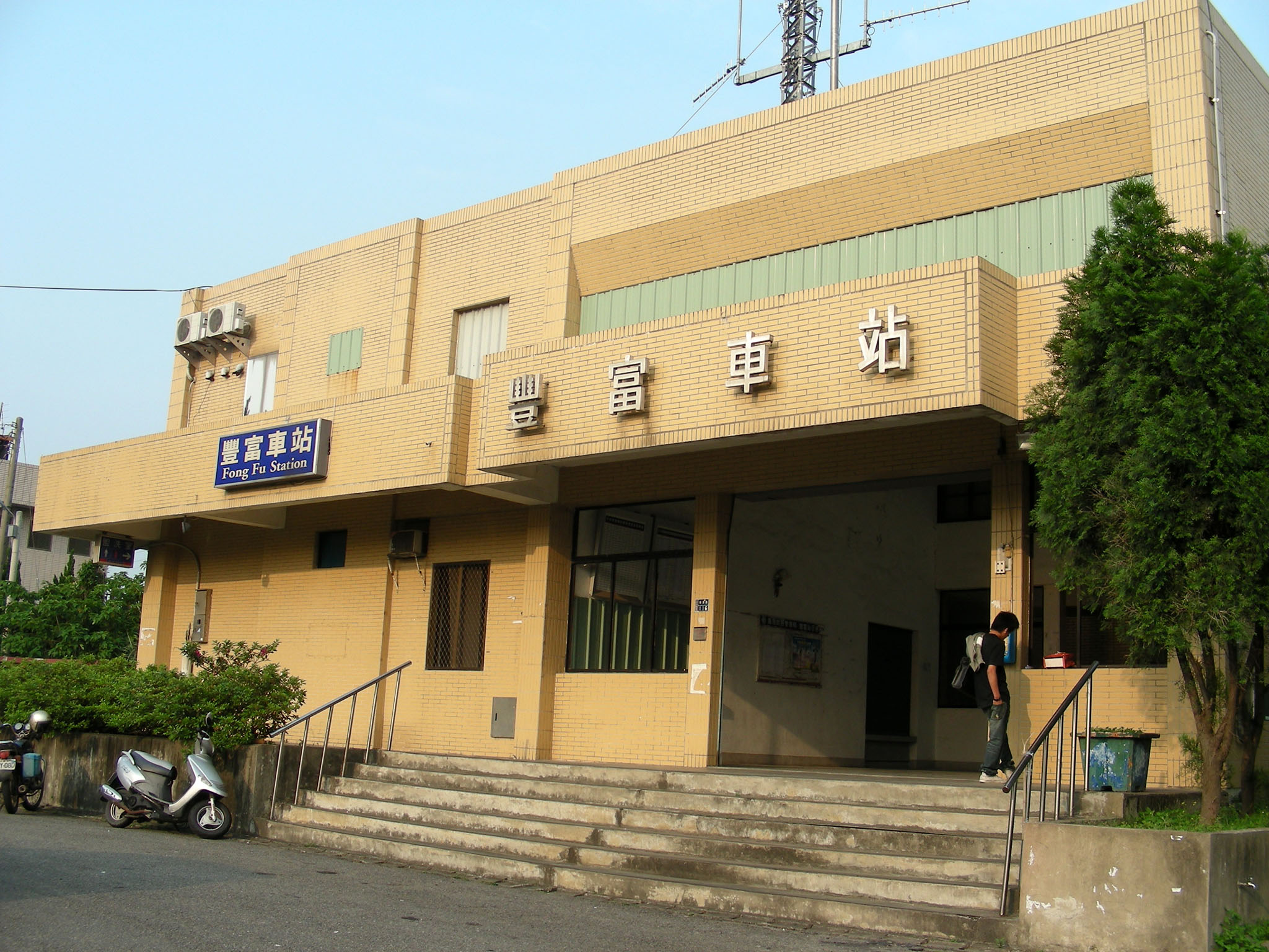 Taiwan "Fong Fu" Railway Station.